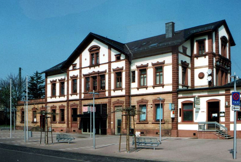 Fotograph: Mäfä Railway Station St. Ingbert, Germany Summer 2001